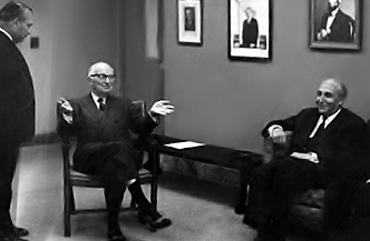 Harry S. Truman meets with Osman Bölükbaşı in Washington, DC (April 12, 1949). From 1949 to 1952, Turkey received over 225 million dollars in Marshall Plan aid. Photo courtesy of the Harry S. Truman Presidential Library.